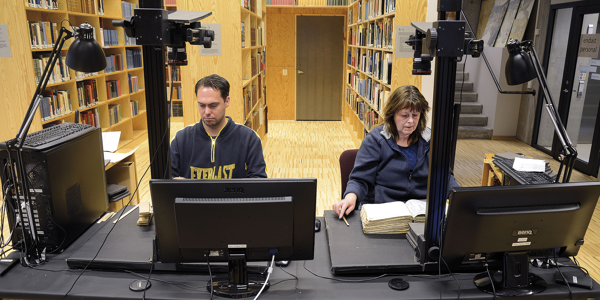 ArkivDigital staff in the process of digitalizing historical documents in a regional Swedish state archive (landsarkiv).